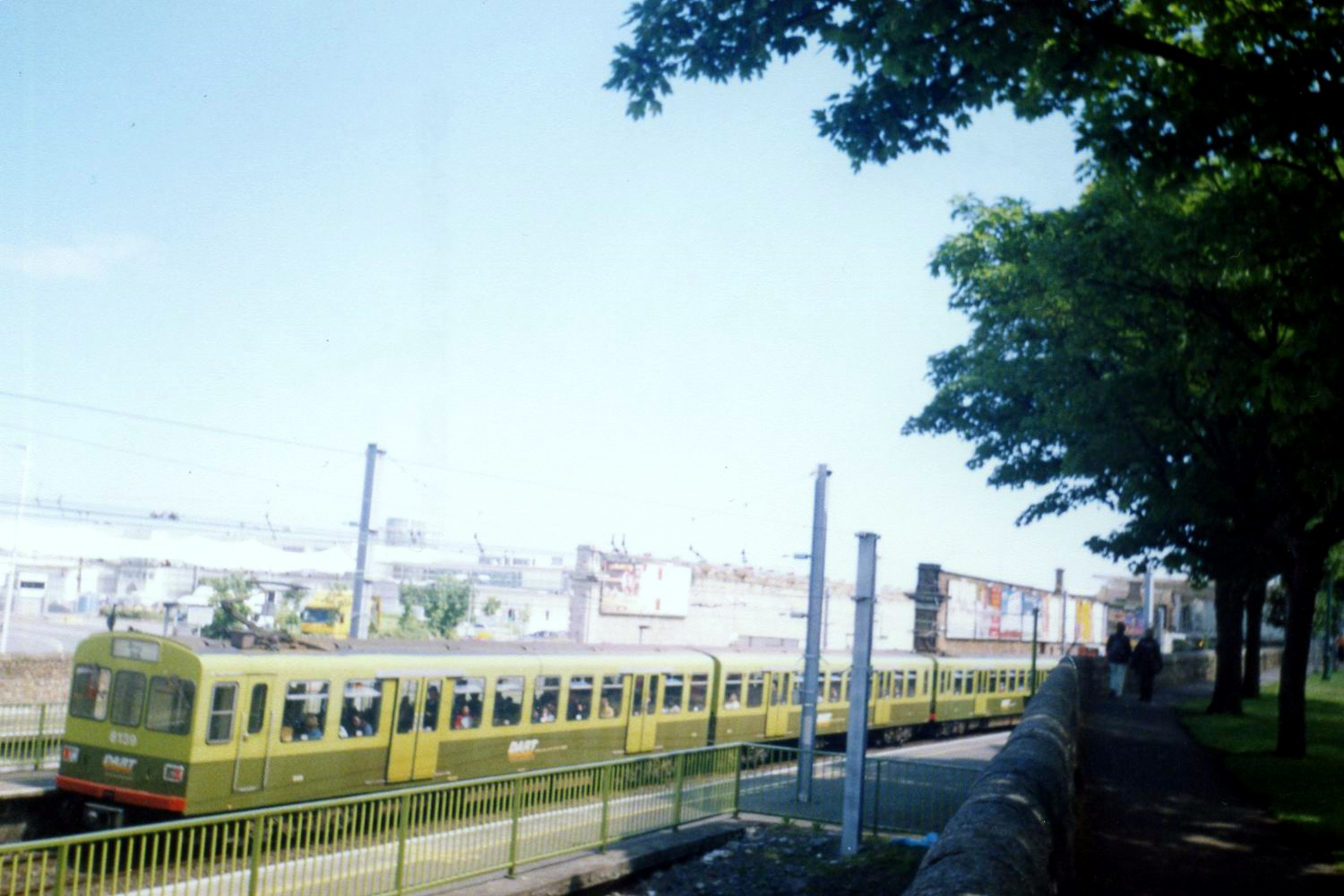 IÉ 8100 Class DART train summer 2001